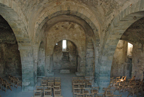 Santa Helena de Rodes church. Port de la Selva, Catalonia, Spain